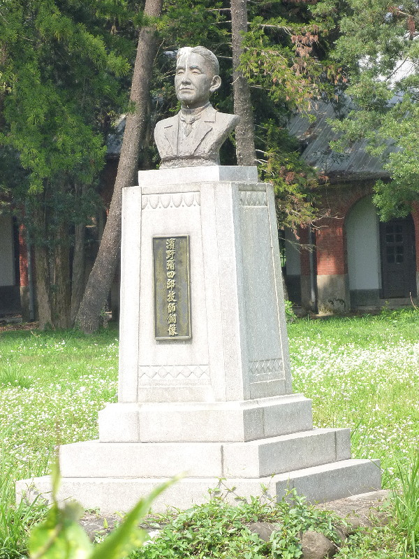 Hamano Yashiro's statue